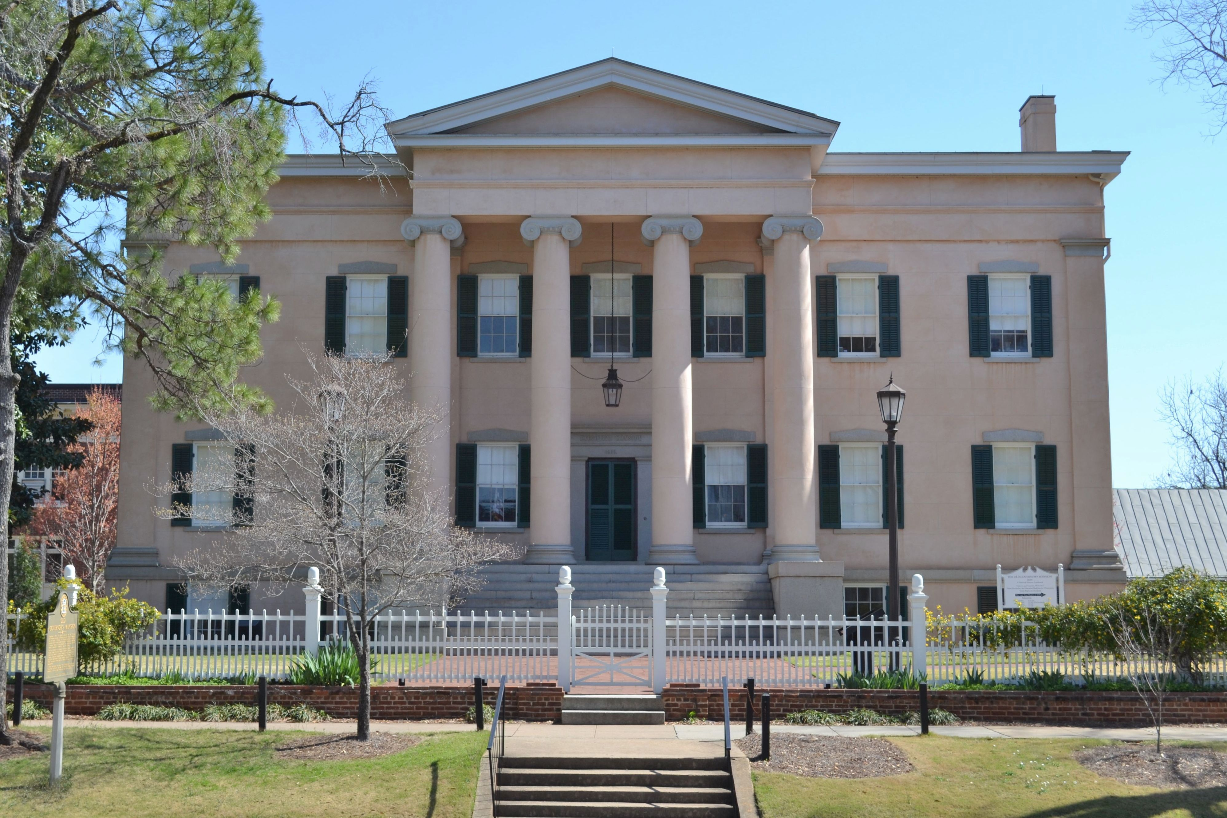 Old Governor's Mansion